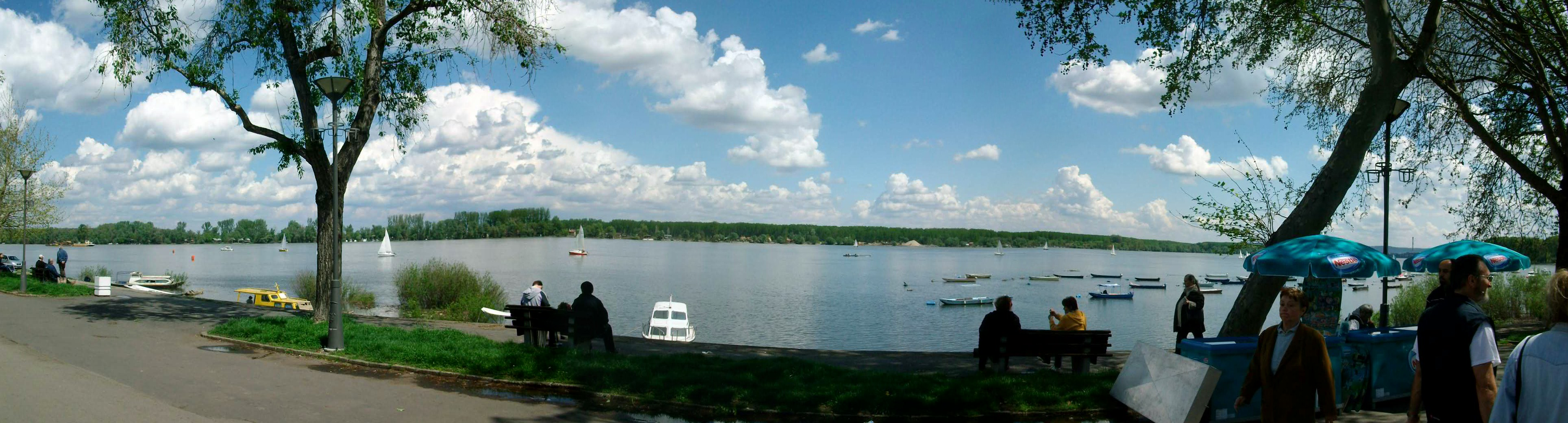 Panoramic view from Zemunski kej